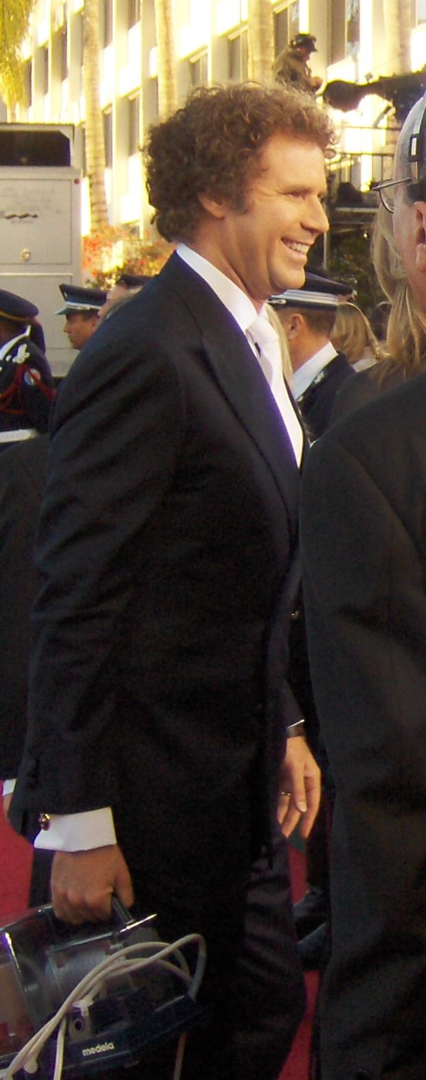 Actor Will Ferrell at 2007 Golden Globe